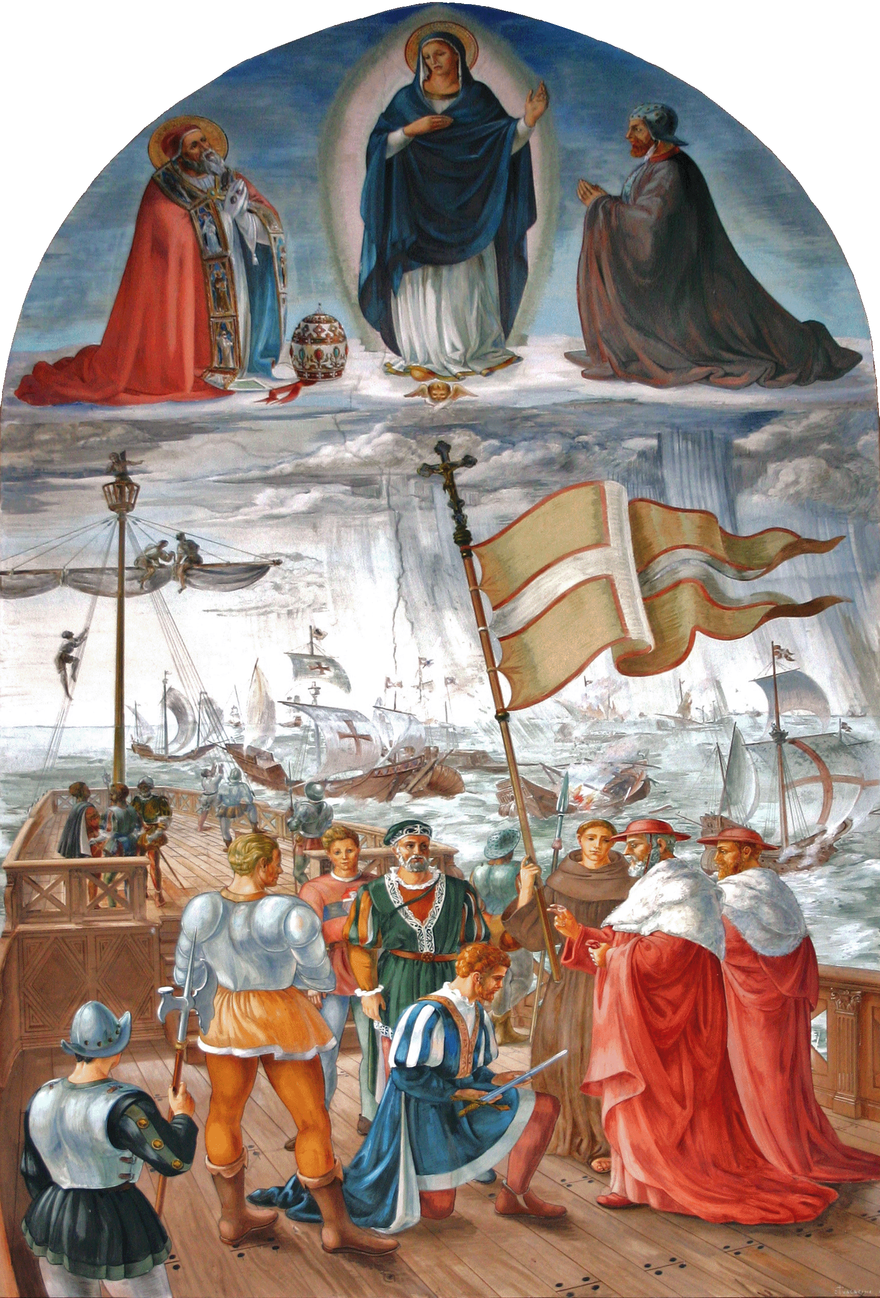 Fresco: Battle of Lepanto in 1571, Don Juan of Austria and cardinals, Ain Karim, Israel - Franciscan church of the Visitation.